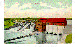 Vintage postcard of the Croton Dam, a dam and powerplant complex on the Muskegon River in Croton Township, Newaygo County, Michigan.